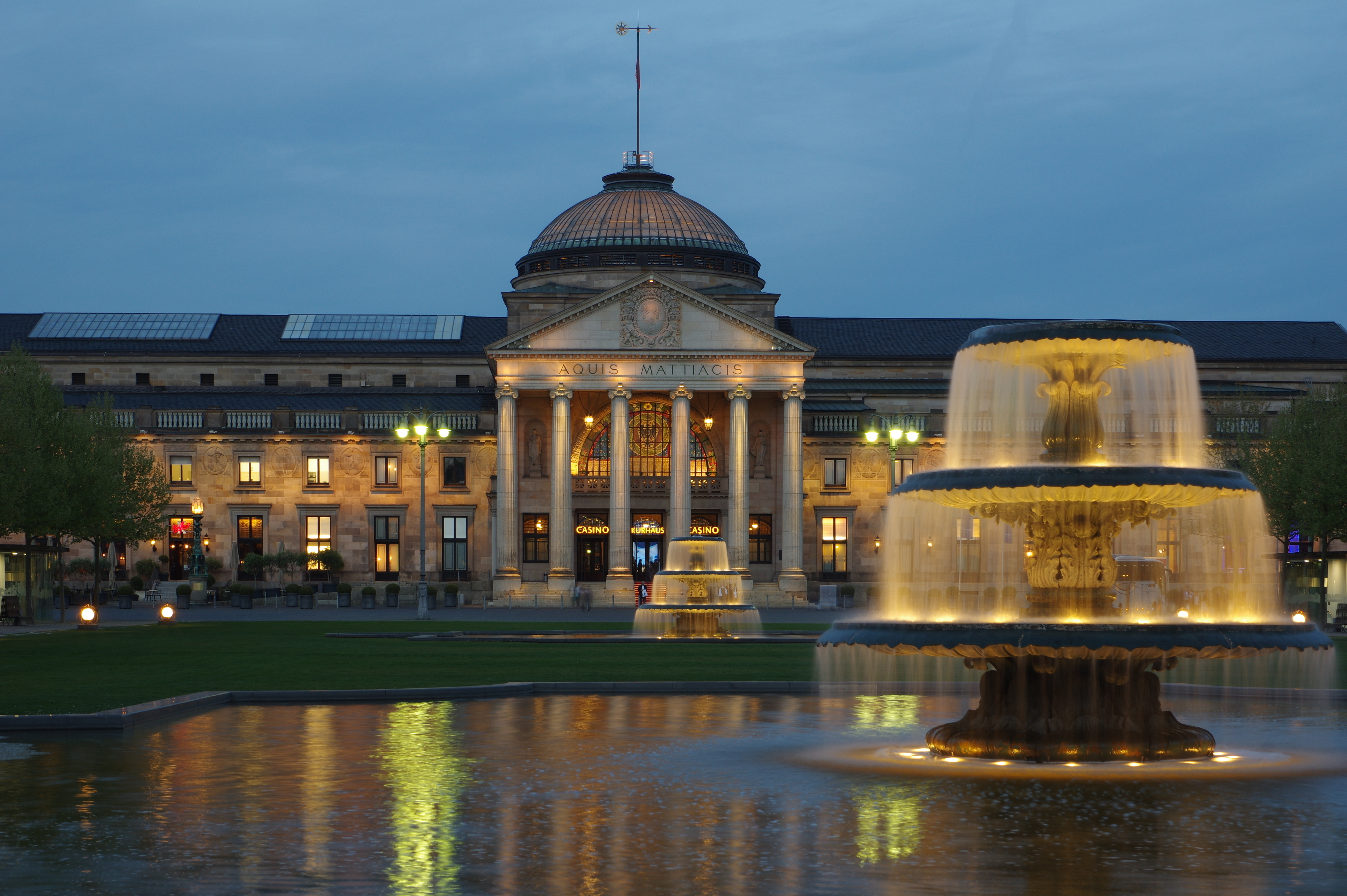 Germany, Wiesbaden, Kurhaus